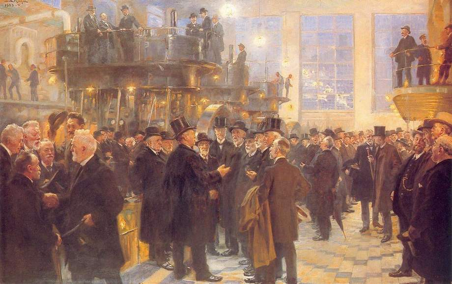 "Industriens Mænd" (The Men of Industry), painting by P.S Krøyer commissioned by Gustav Adolph Hagemann. Since 1958 in the collections of Frederiksborg Museum.